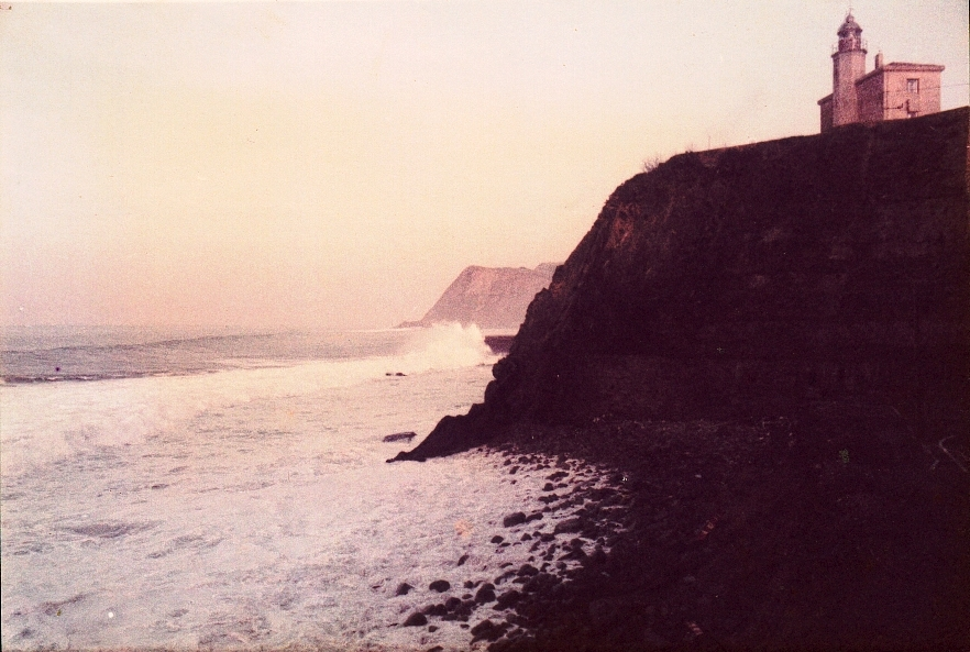 Lighthouse of Zumaia (Gipuzkoa - Spain)